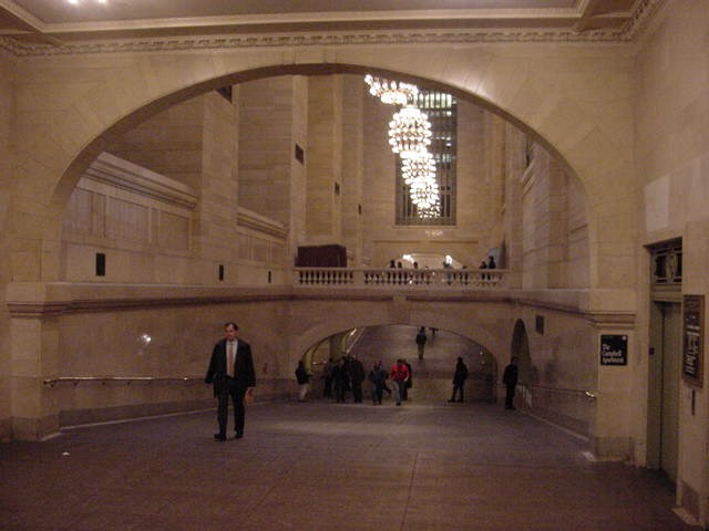 Grand Central Terminal in NYC. Ramp to lower platform. Photographed Dec 2003. Area under archway has remarkable acoustical properties.